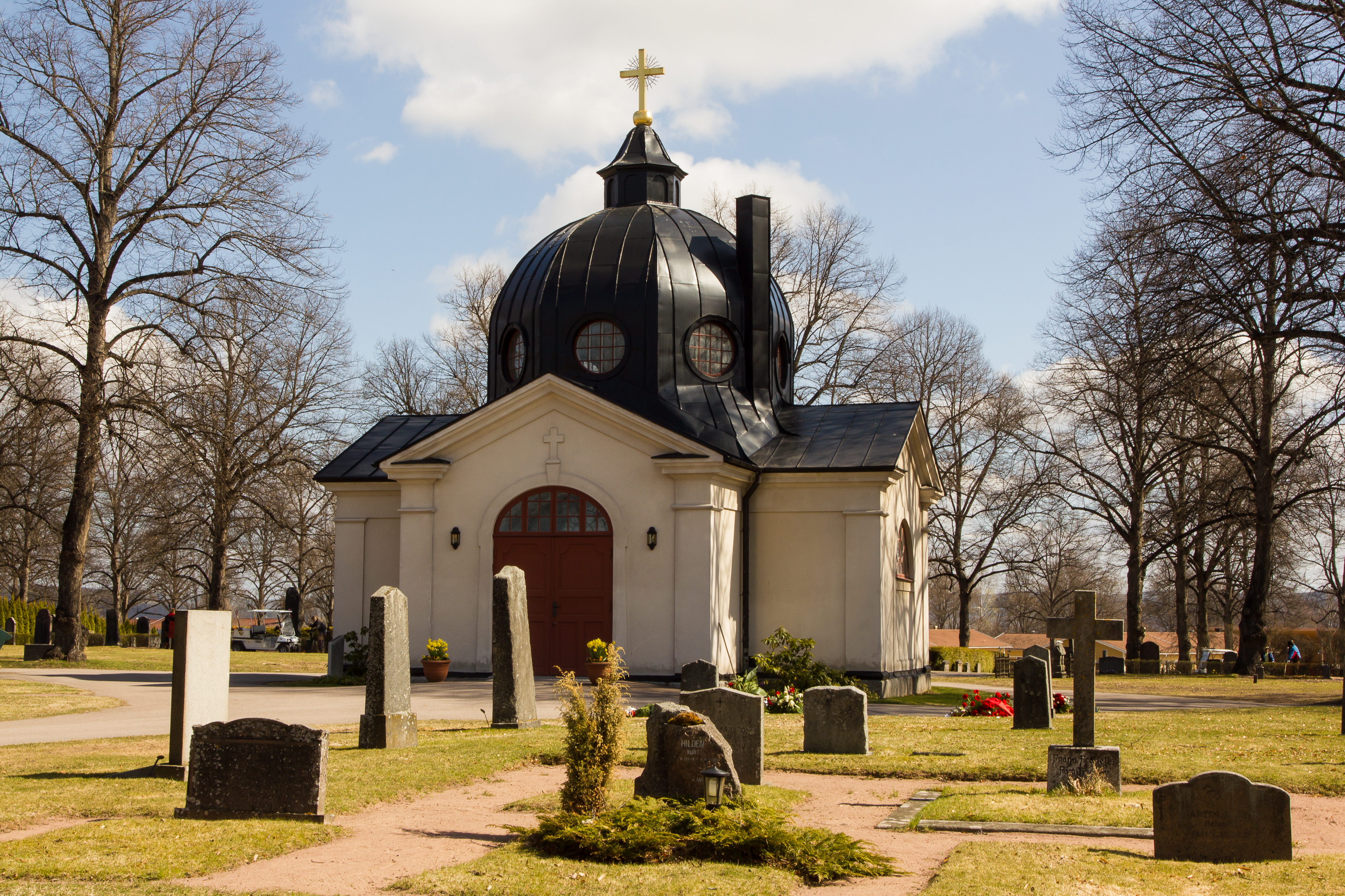 Hedemora Chapel on Hedemora cemetery, Dalarna County, Sweden